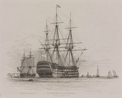 HMS Victory in Portsmouth Harbour with a coal ship alongside, 1828. Etching by Edward William Cooke based on his own drawing.